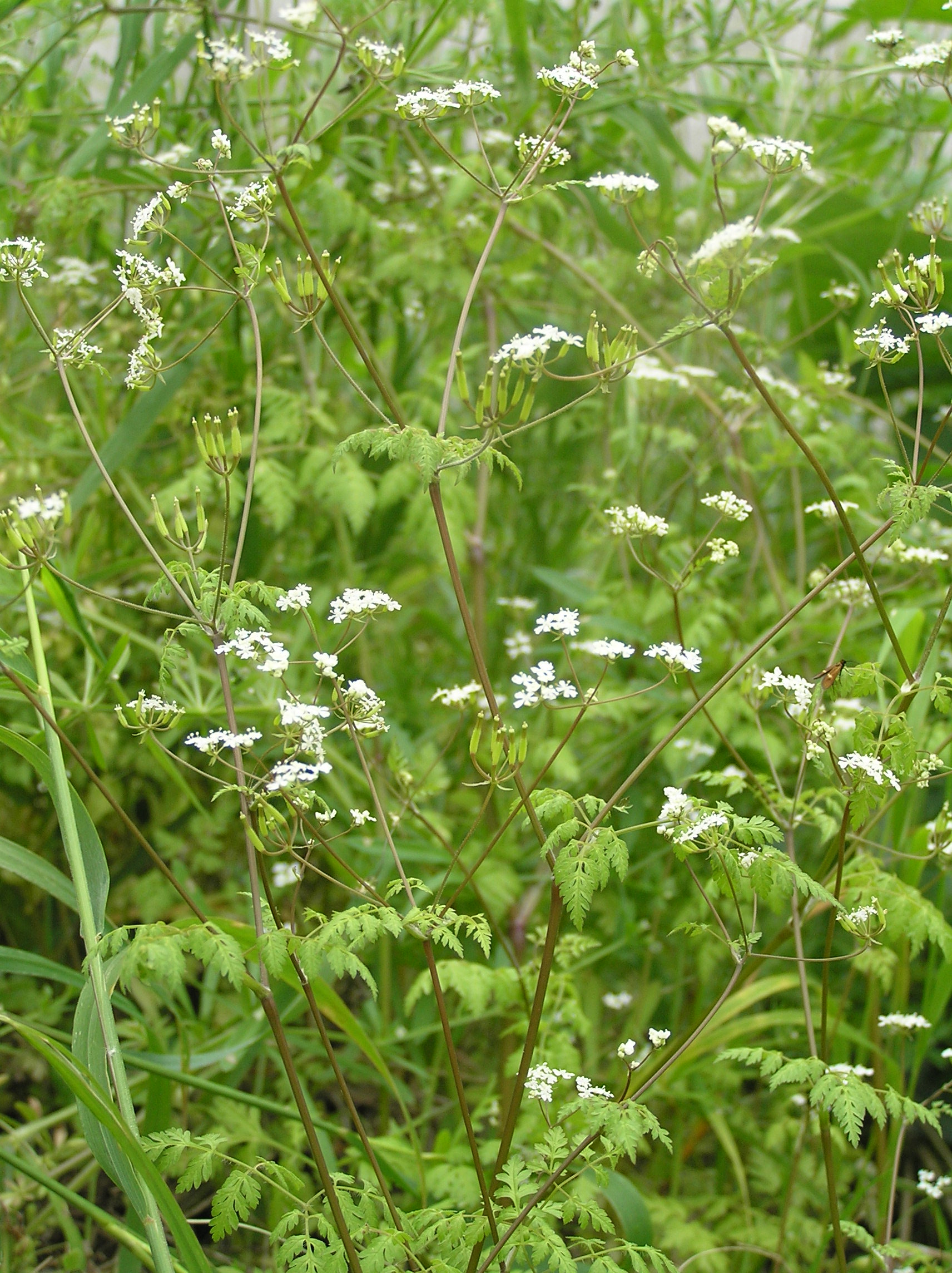 Anthriscus cerefolium subsp. trichosperma, Mikulov, Southern Moravia, Czech Republic